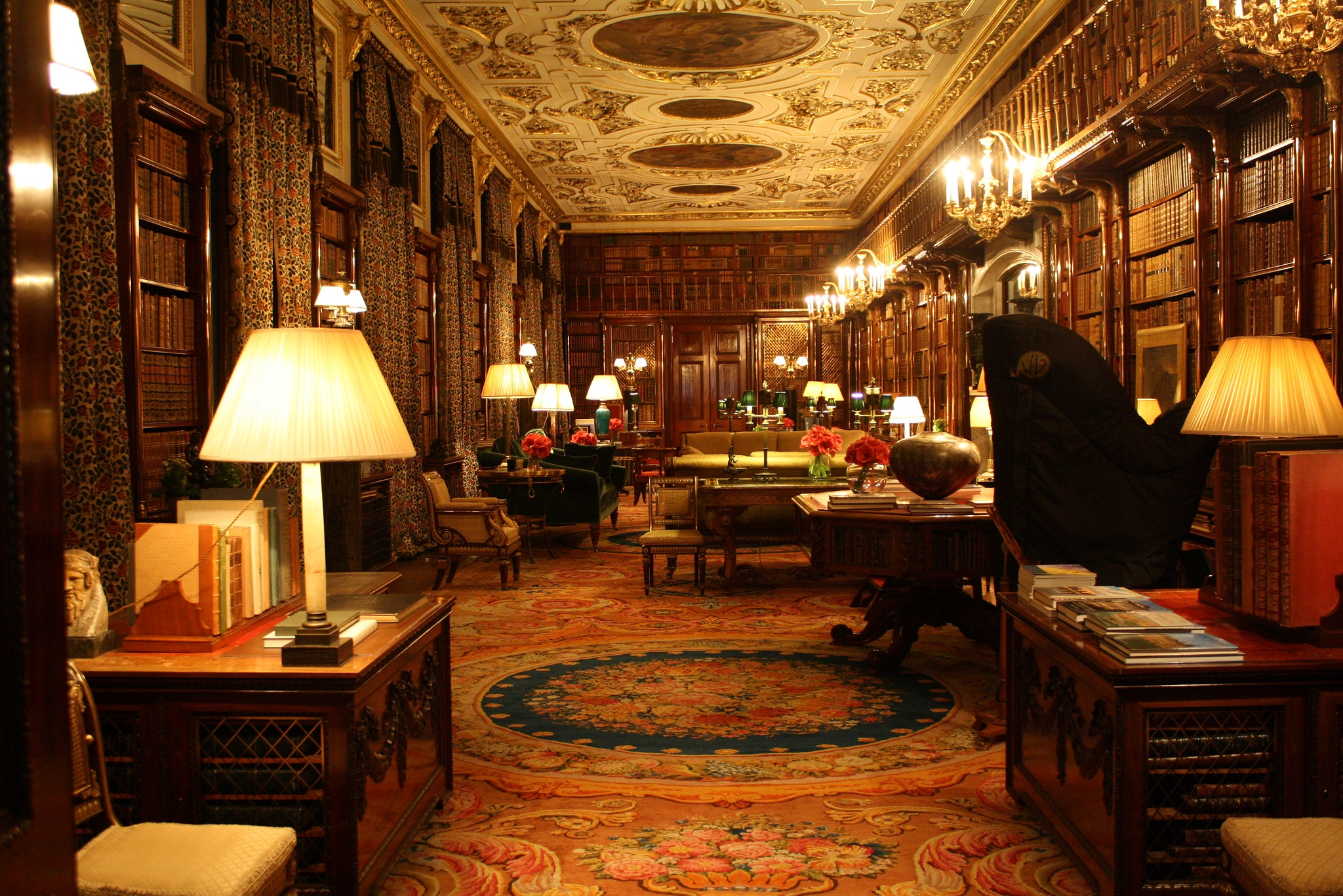 Chatsworth House library